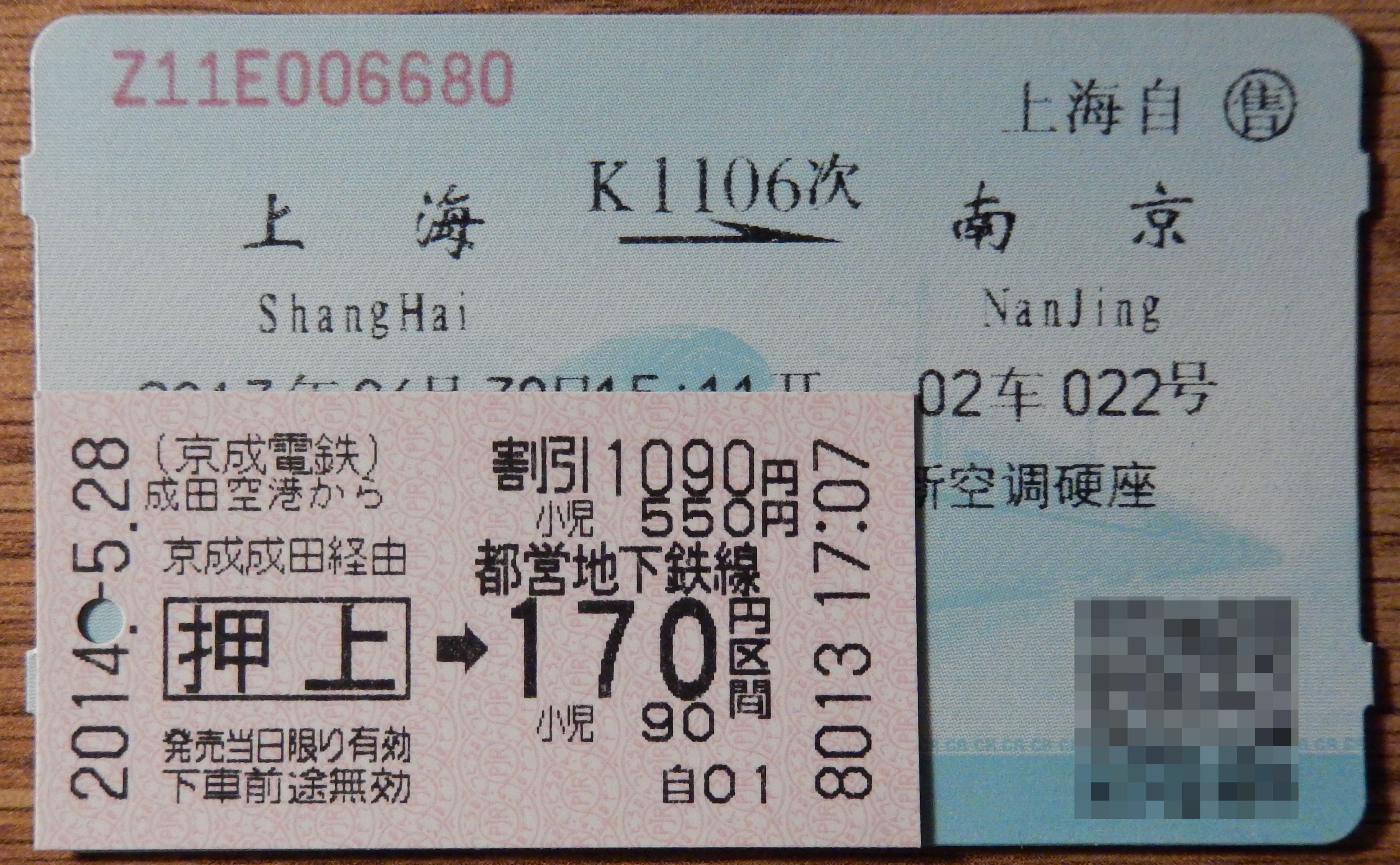 Size Comparison between Chinese (ISO-7810 ID-1 standard) and Japanese (Edmondson railway ticket) train ticket